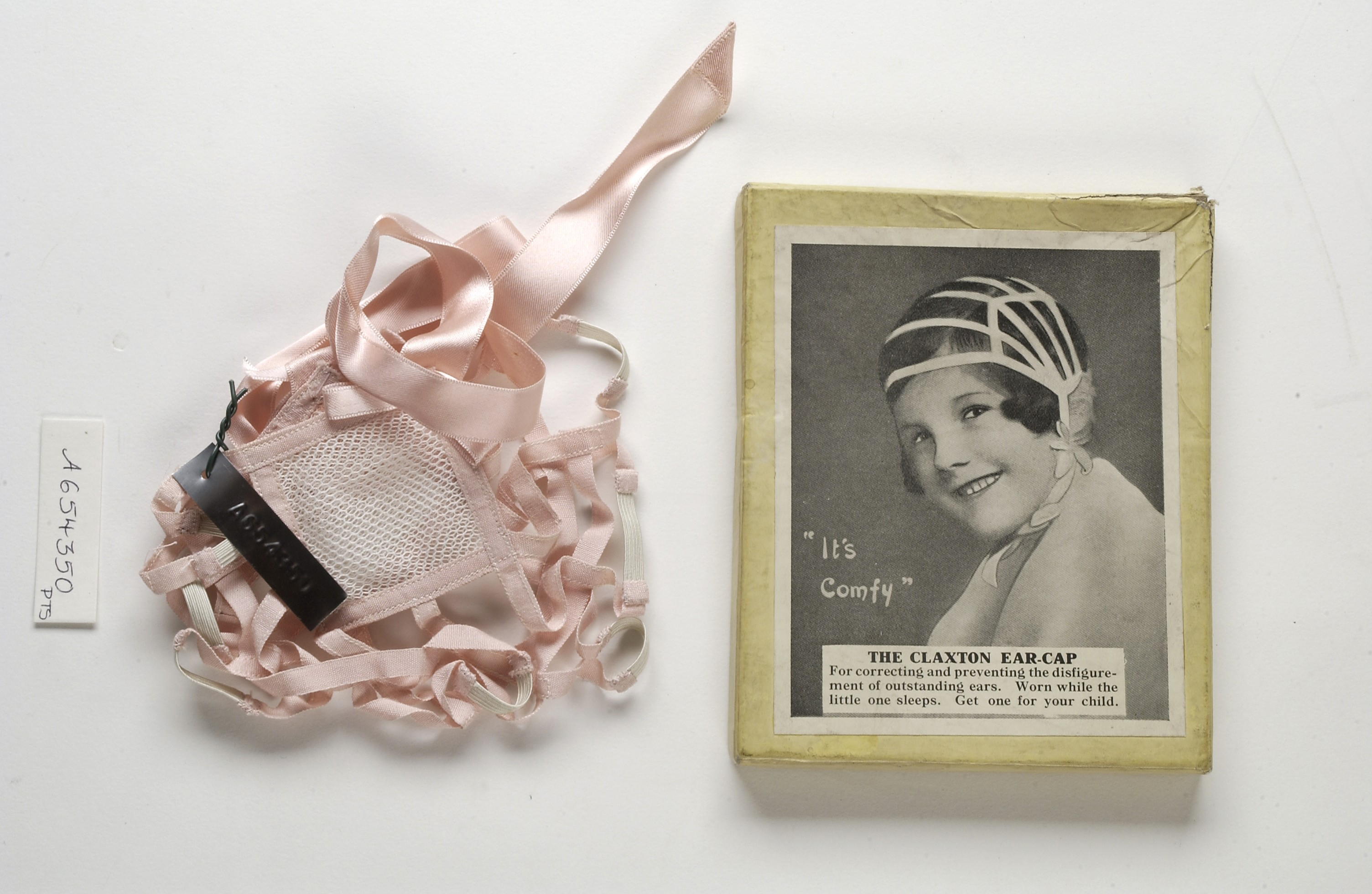 The 'Claxton' earcap, patented by Adelaide Claxton to correct 'outstanding' ears and worn by children when asleep. Wellcome Images Keywords: Congenital Abnormalities; Therapeutics; England; English; Deformity; Product Packaging; Packaging; Treatment; Child